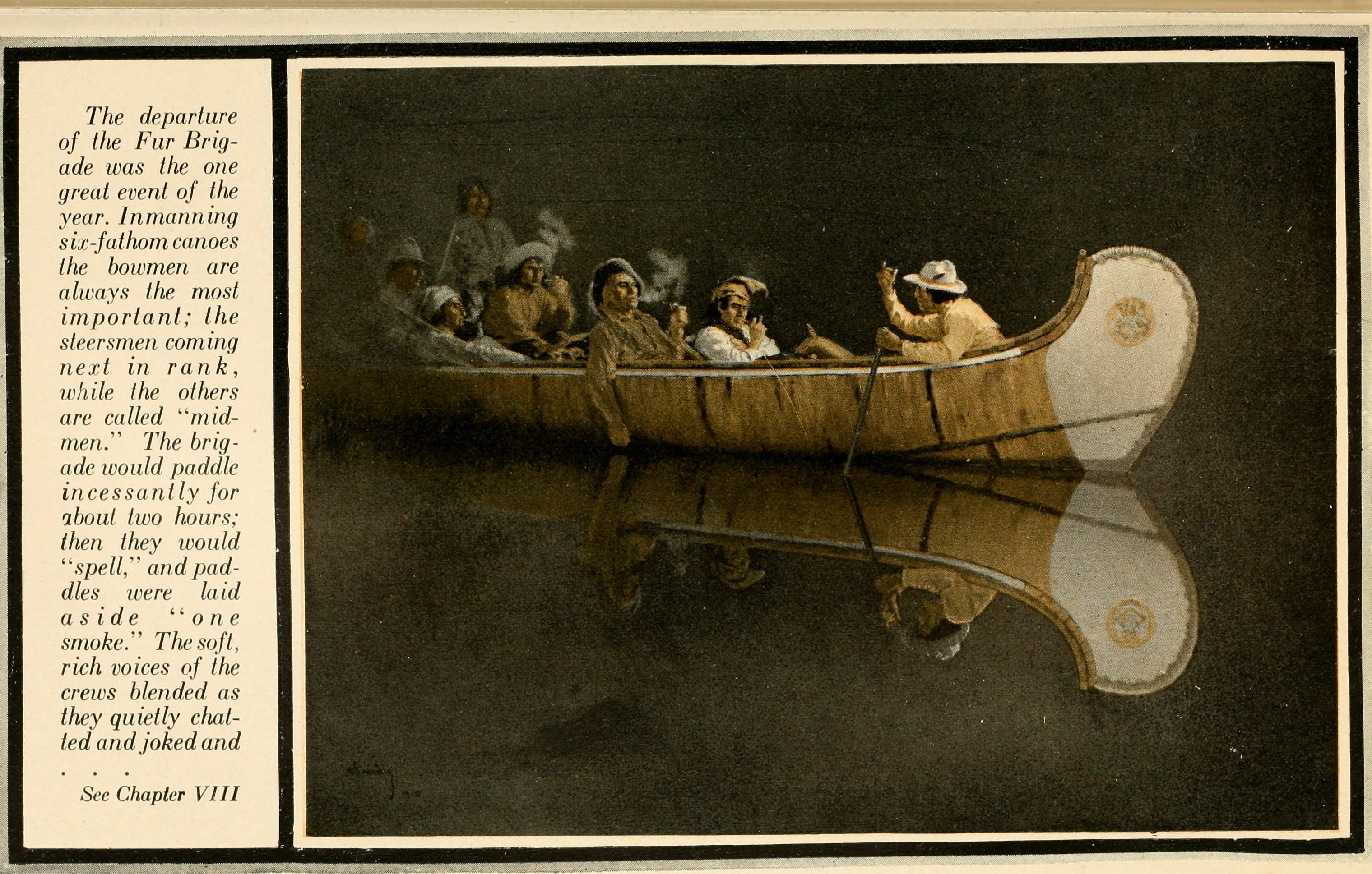 Title: The drama of the forests, romance and adventure Year: 1921 (1920s) Authors: Heming, Arthur Henry Howard, 1870-1940 Subjects: Indians of North America; Hunting Publisher: Garden City, N. Y. , Toronto, Doubleday, Page & co. Text Appearing Before Image: ' Text Appearing After Image: '